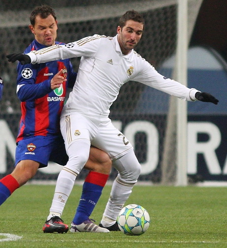 Gonzalo Higuaín